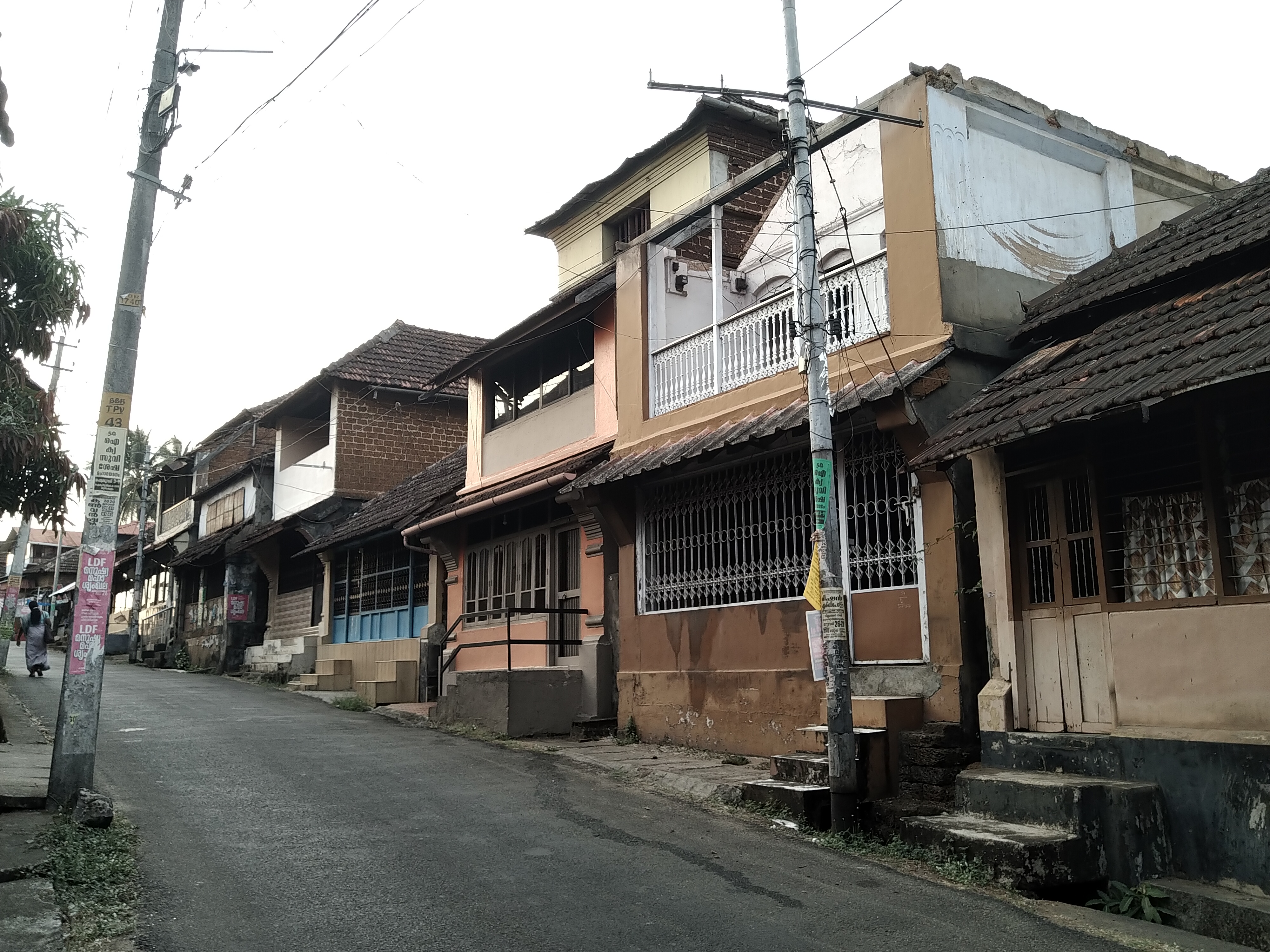 Agraharam close-by houses in Kunnamkulam angadi (East Bazar)